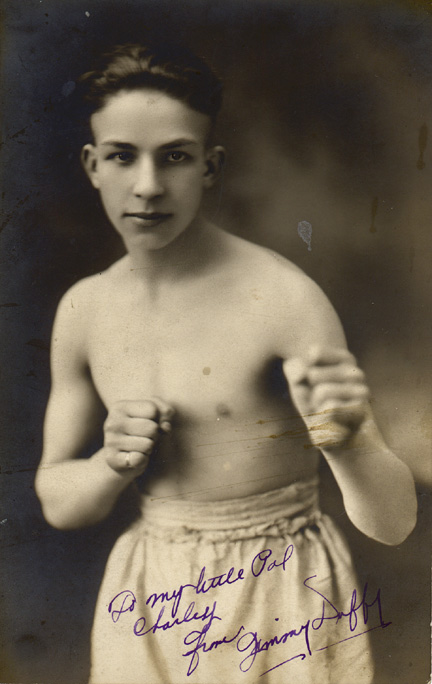 This is a 1920 photo of San Francisco boxing star Oakland Jimmy Duffy in his youth in boxing pose in white trunks.